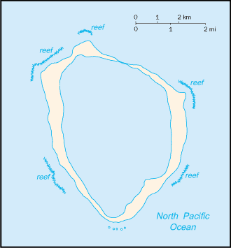 A map of Clipperton Island, Pacific Ocean.